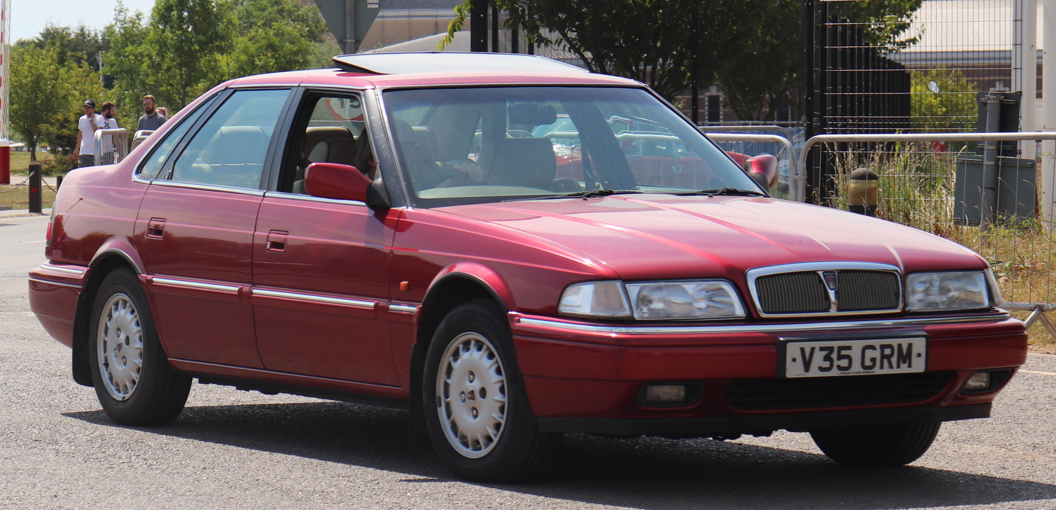 1999 Rover Sterling Automatic 2.5 Taken at the British Motor Museum BMC & Leyland Show 2018, Gaydon